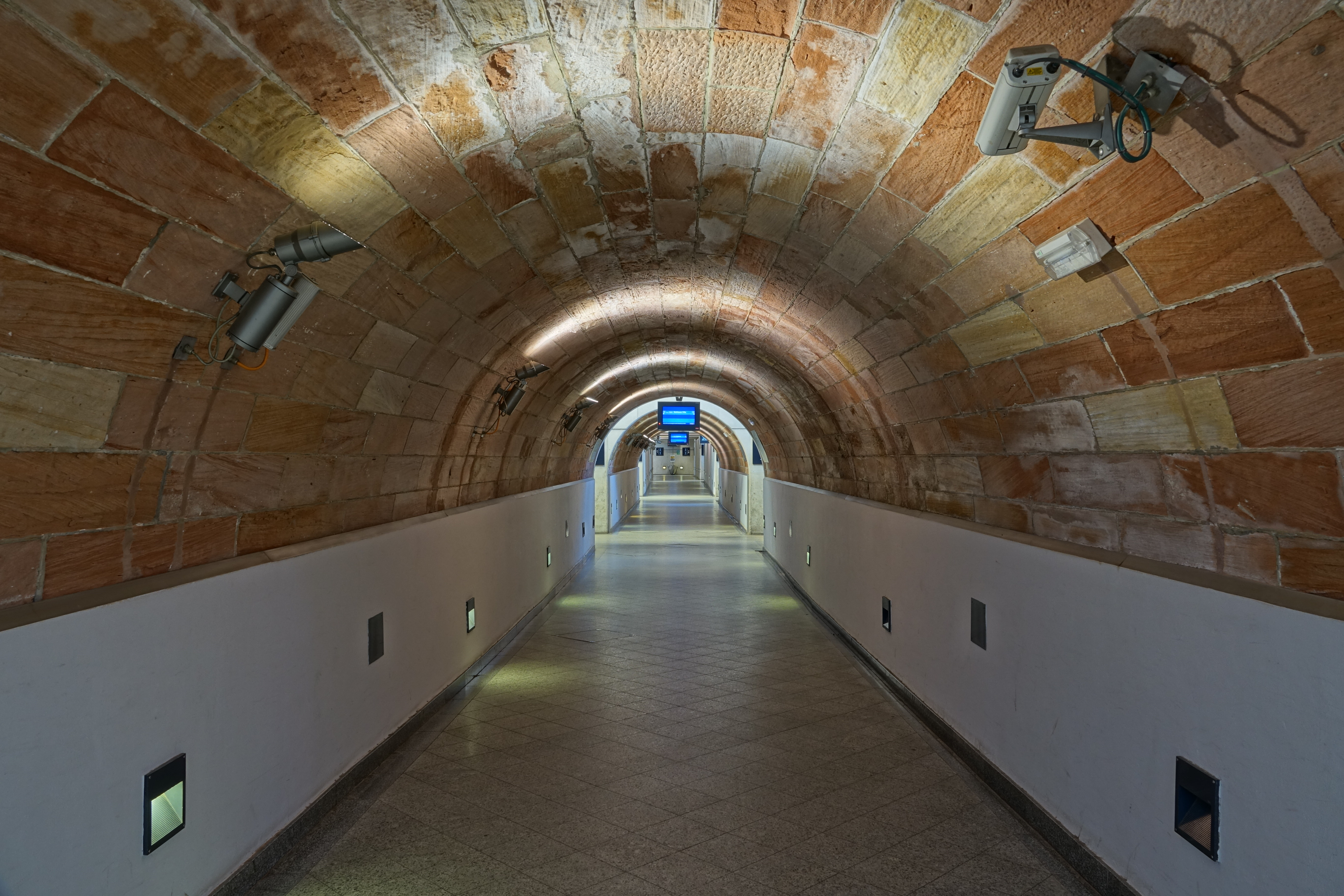 North corridor of the Strasbourg train station (Bas-Rhin, France).